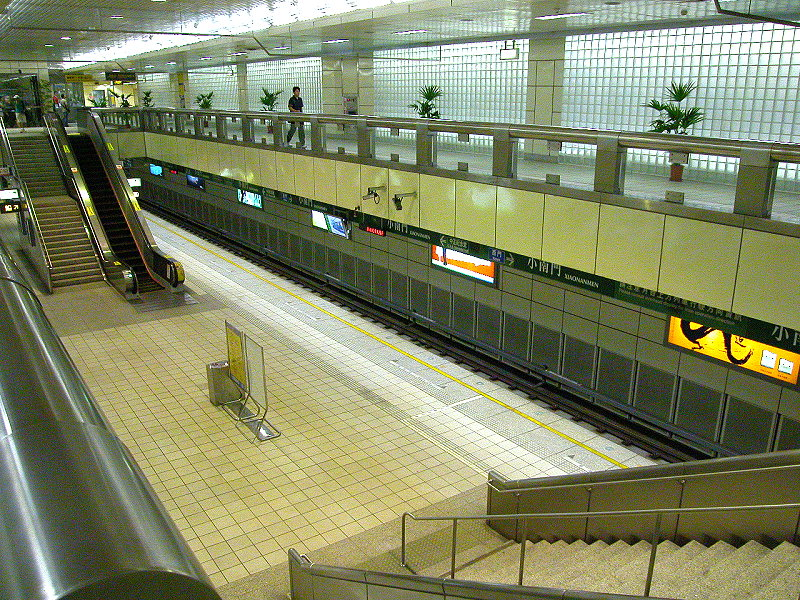 小南門站，Xiaonanmen Station